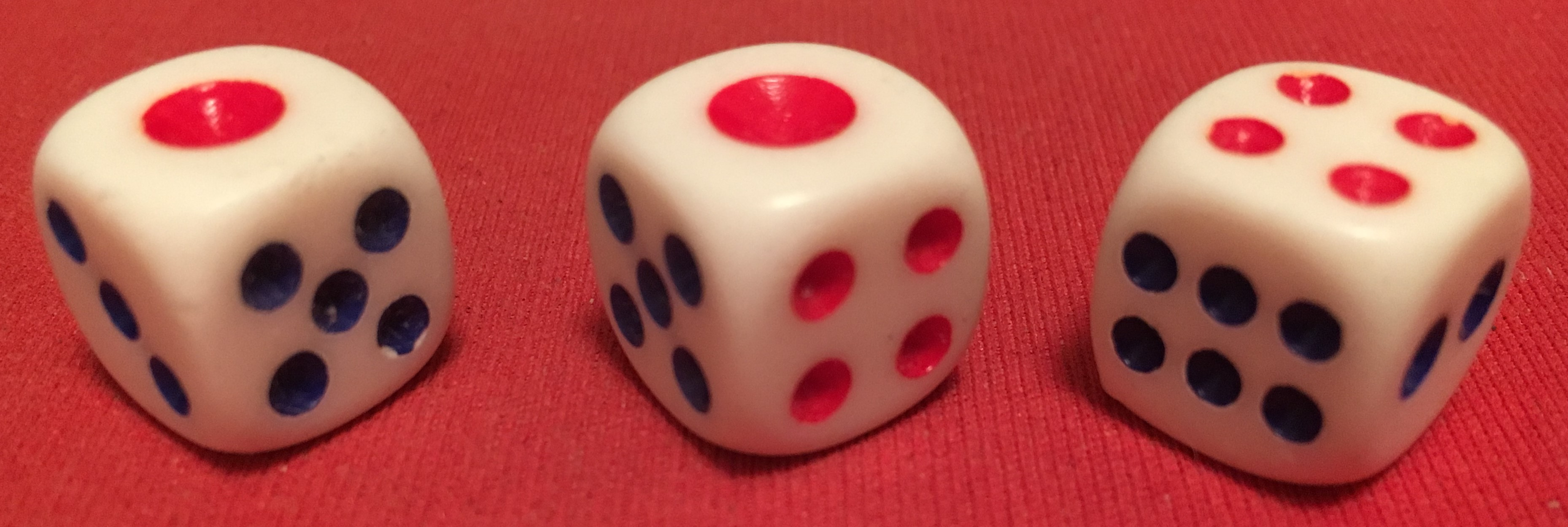 Three Chinese dice. The sides are "left-handed". The ace and cater pips are red.